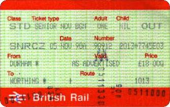 An APTIS travel ticket for a Senior Railcard promotion in November 1990. Scanned from my own collection. Summary An APTIS travel ticket for a Senior Railcard promotion in November 1990. Scanned from my own collection.